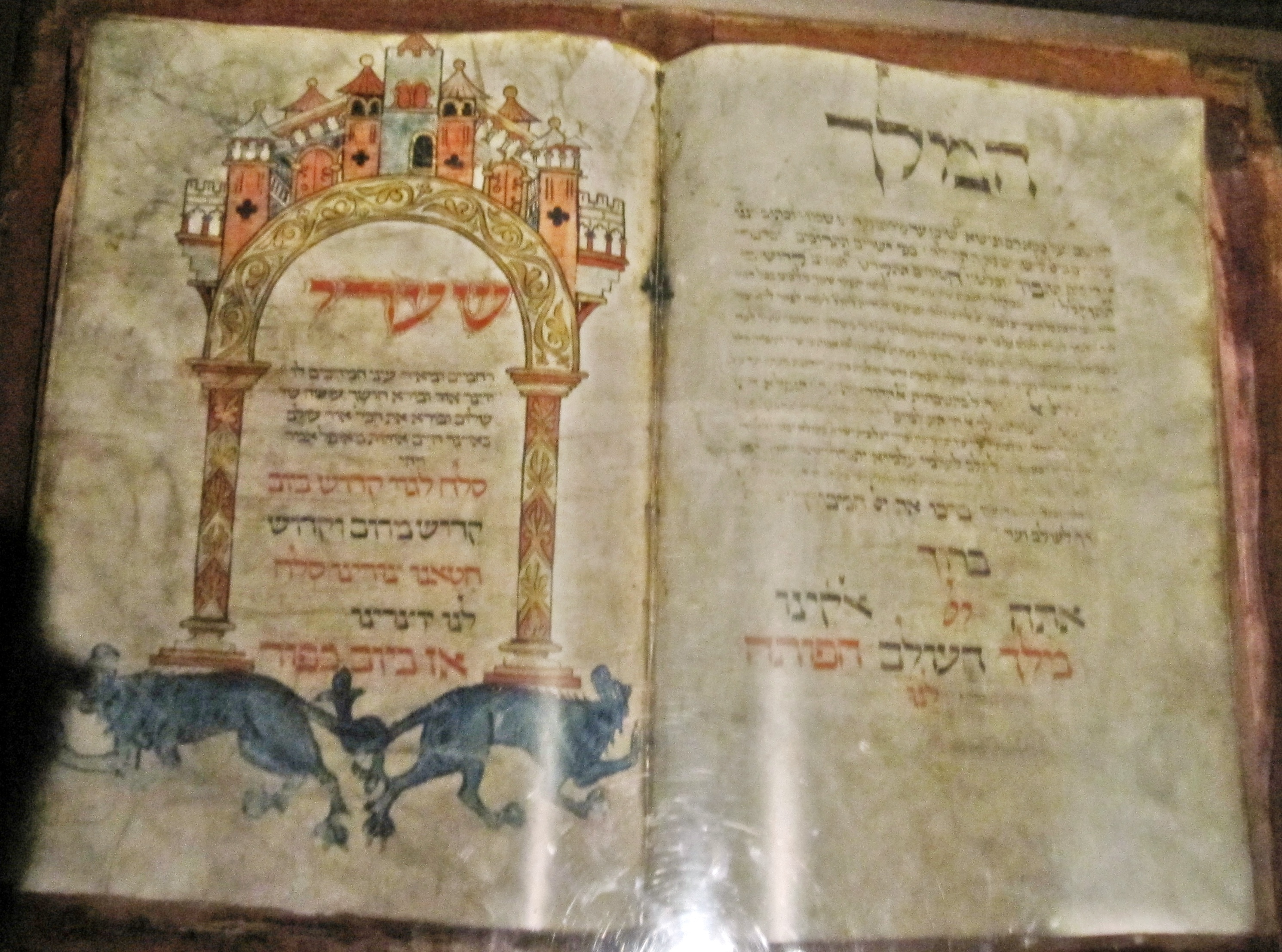 This is a photo of an exhibit at the Diaspora Museum, Tel Aviv - Beit Hatefutsot. The exhibit note says "Morning prayer book recited on the day of atonement. From the Worms Festival Prayerbook, Germany, Mainz (?), Late thirteenth century (Facsimile), Jewish National and University Library, Jerusalem"